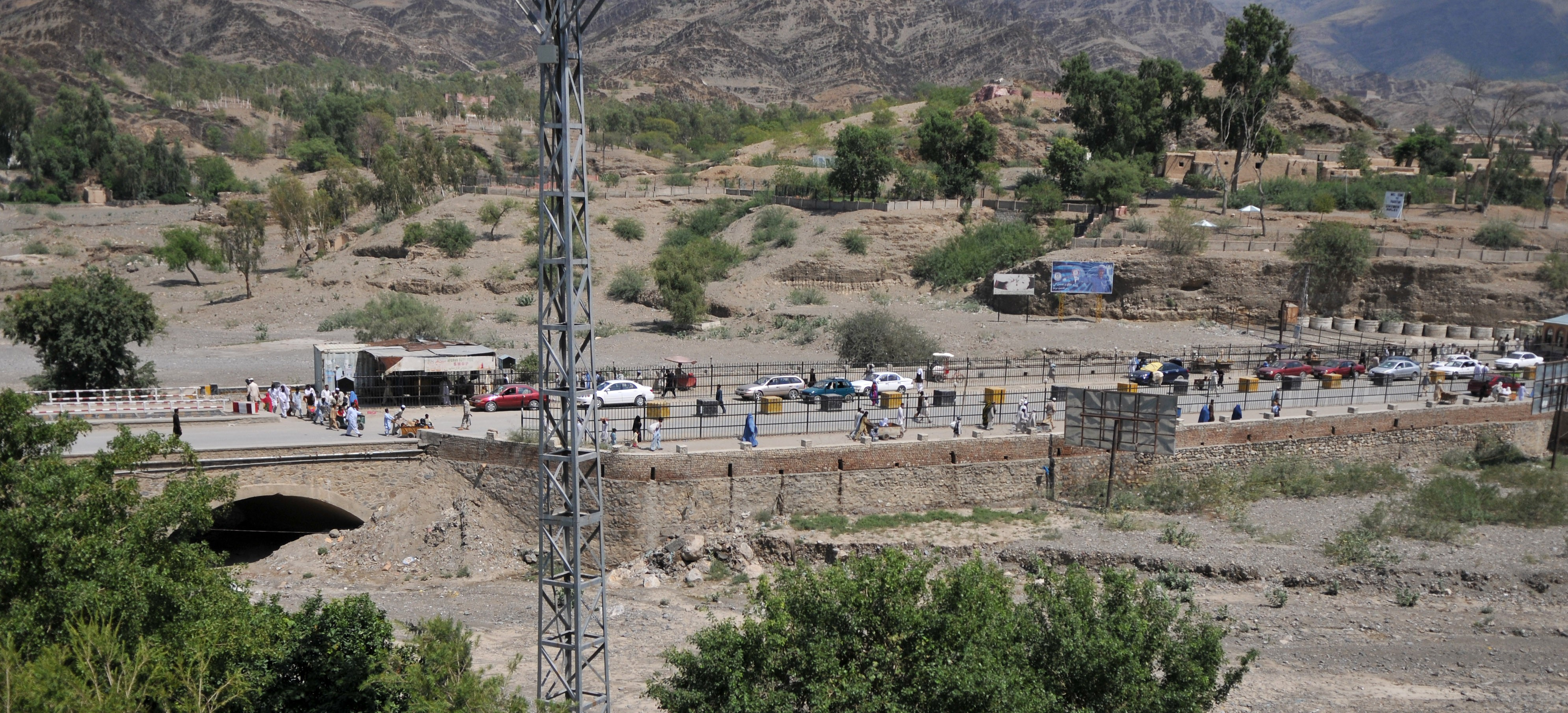 Marine Corps Gen. John R. Allen, commander of NATO and International Security Assistance Force troops in Afghanistan, visited military and civilian personnel assigned to Regional Command-East, Nangarhar province, Sept. 5. Allen received a briefing and walking tour of Torkham Gate area of operations during his visit and thanked U.S. and Afghan forces for their service and sacrifice. ISAF is a key component of the international community's engagement in Afghanistan, assisting Afghan authorities in providing security and stability while creating the conditions for reconstruction development. (U.S. Air Force photo/Master Sgt. Michael O'Connor) (Released)